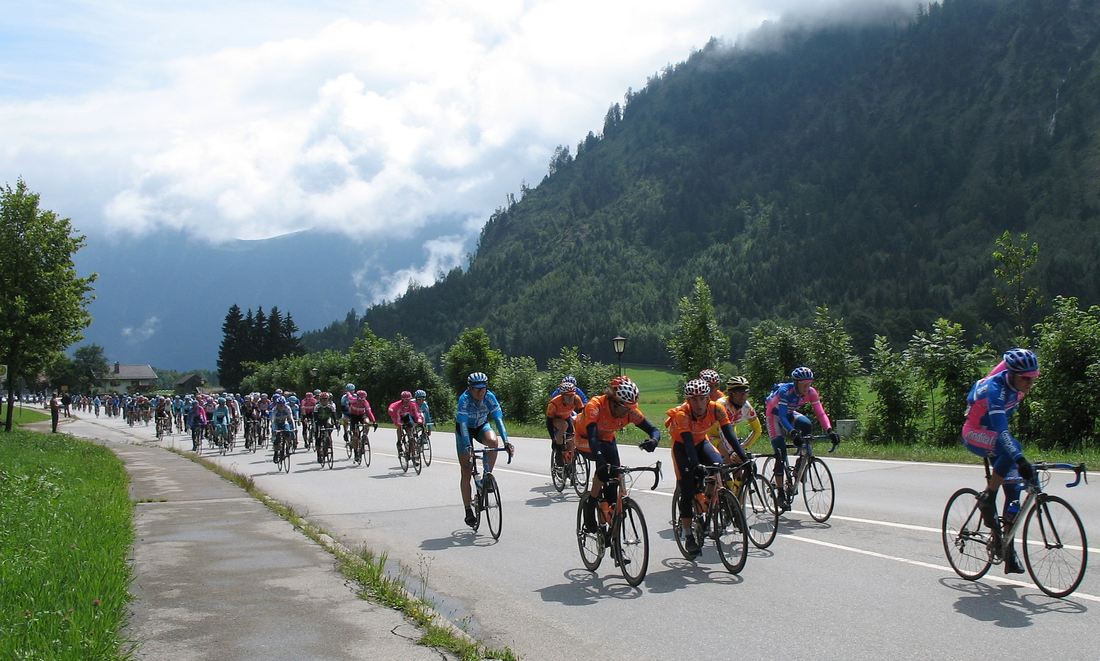 Main group of the Deutschland Tour 2006 after leaving Ettal on the 6th stage (Olympiaregion, 180 km)